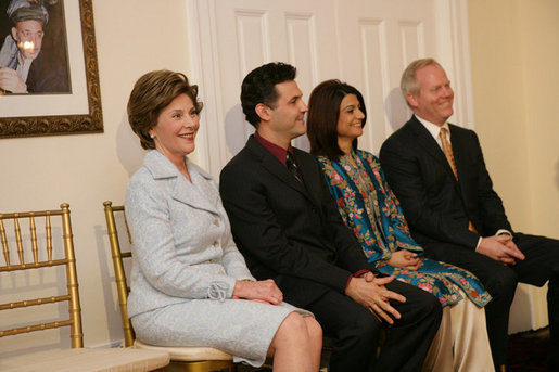 Mrs. Laura Bush attends the Afghan Children's Initiative Benefit Dinner at the Afghanistan Embassy in Washington, DC on Thursday evening, March 16, 2006. Seated with Mrs. Bush are Dr. Khaled Hosseini, author of The Kite Runner; Mrs. Shamim Jawad, host and wife of the Afghan Ambassador to the U.S.; and Mr. Tim McBride, member of the U.S.-Afghan Women's Council. White House photo by Shealah Craighead